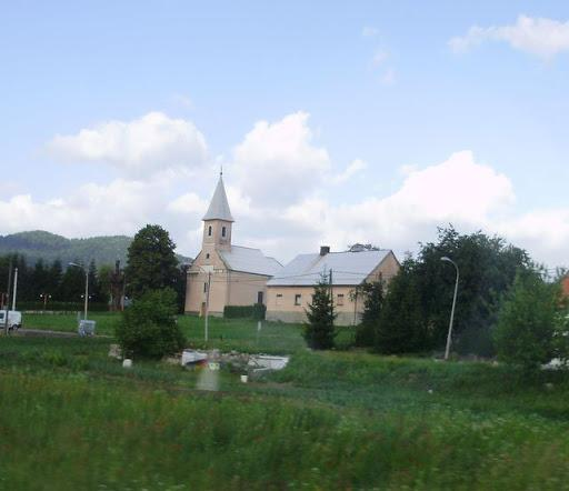 Church in Croatia